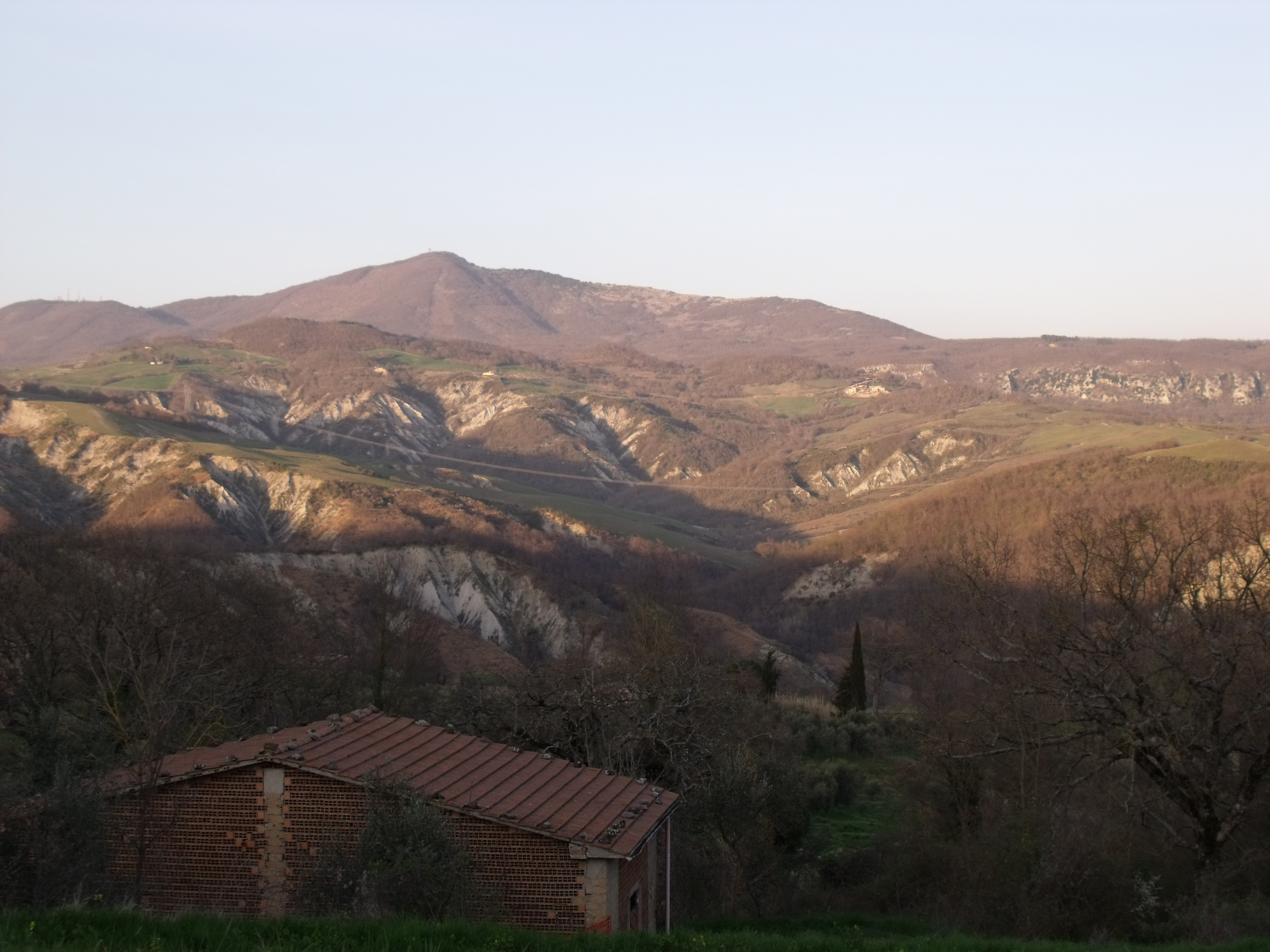 Mount Cetona / Monte Cetona in Tuscany near Cetona in the Province of Siena